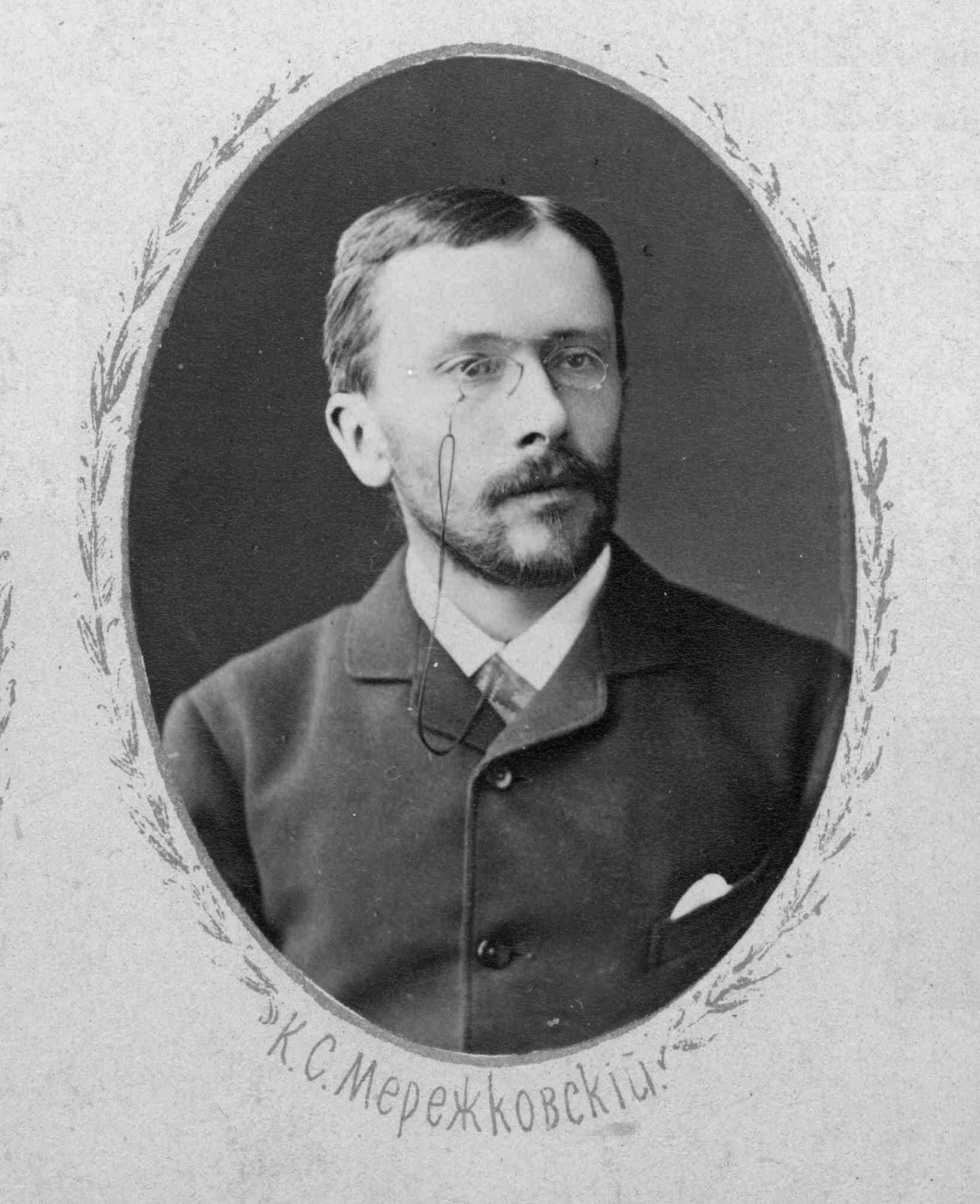 Konstantin Mereschkowski (1855-1921)